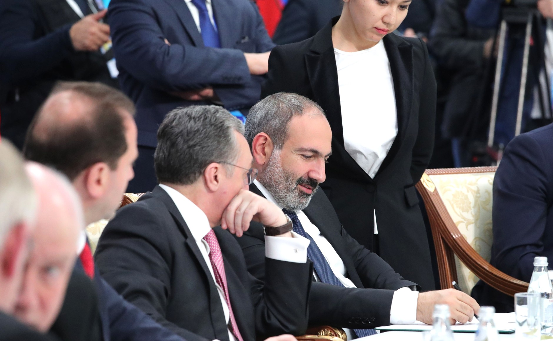 The President of Russia attended the CSTO Collective Security Council meeting in Astana.